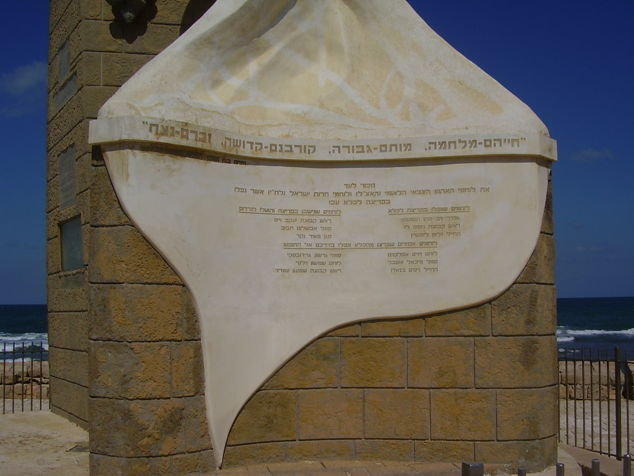 Memorial to Acre Prison break,in Acre